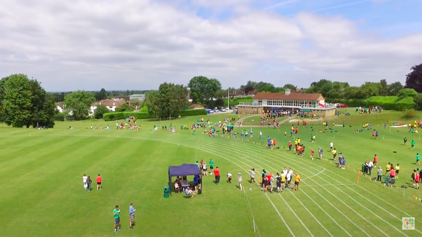 Sutton Grammar School pavillion